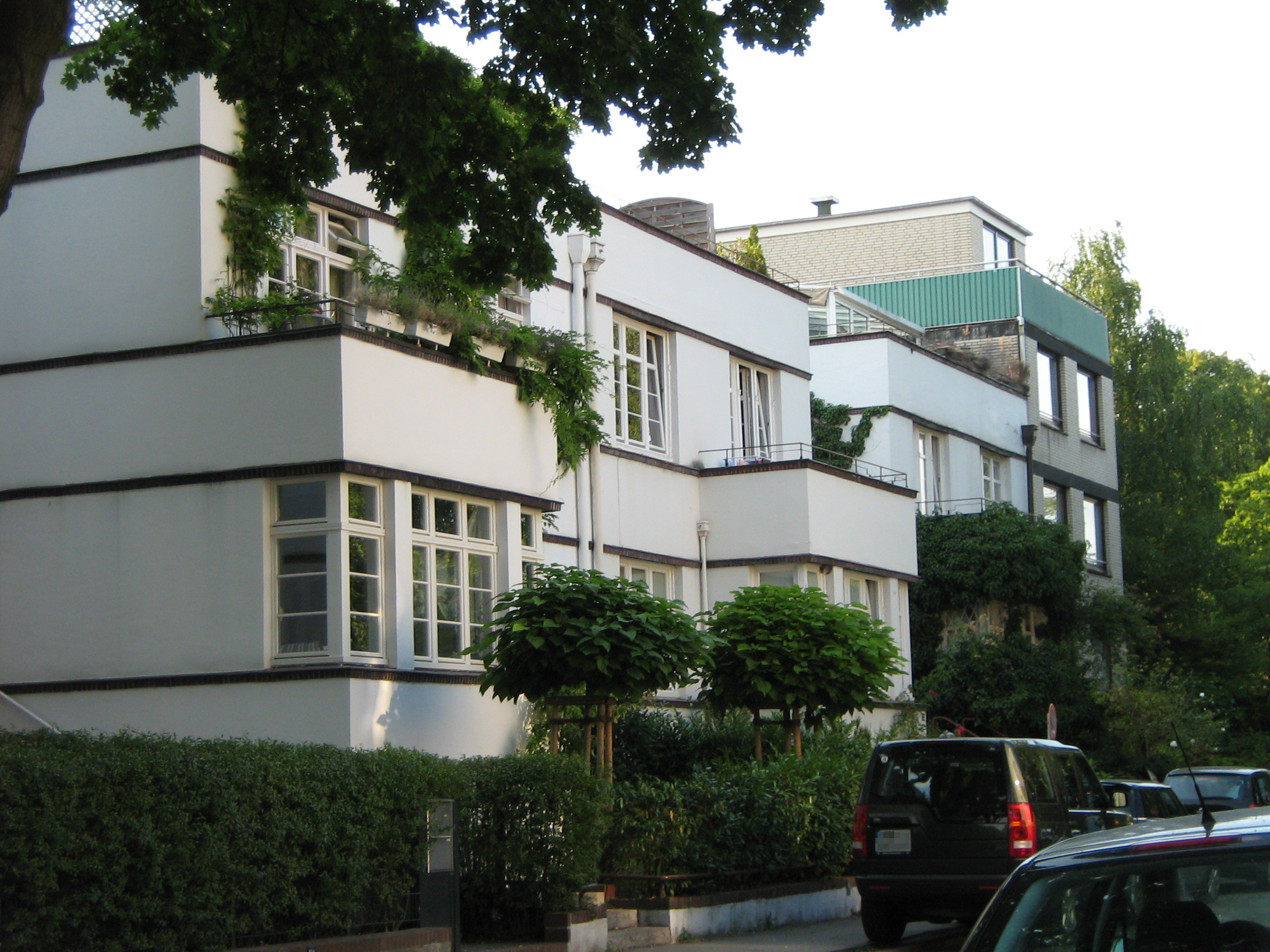 Apartment building "Sopheieneck" in Harvestehude, Hamburg, Germany. Architects: Bernd Engel (Bernard Engle) and Semmy Engel 1928/29.